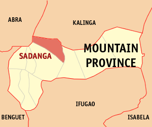 Map of Mountain Province showing the location of Sadanga